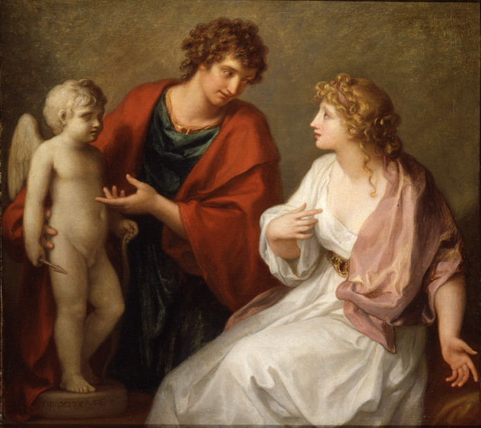 Sculptor Praxiteles offering a statue of Cupid (his favorite work) as a gift to Phryne.